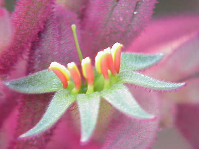 Species: Anigozanthos flavidus Family: Haemodoraceae Image No. 9